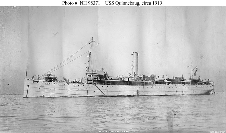 USS Quinnebaug (ID # 1687), Photographed circa early 1919 by O.W. Waterman, Hampton, Virginia. Photo #: NH 98371